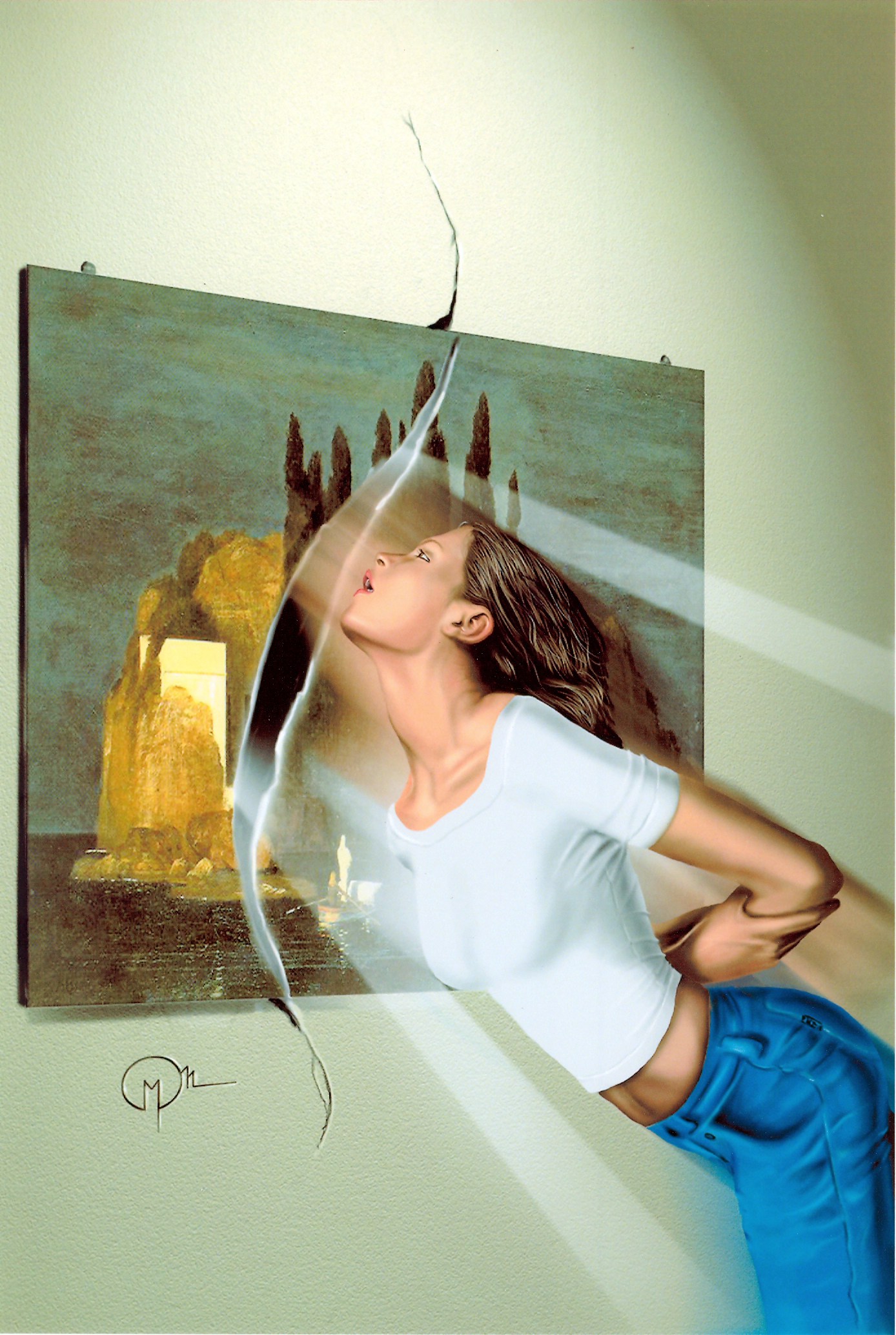 Original art by Maurizio Manzieri for the cover of "Ai margini del caos" by Franco Ricciardiello